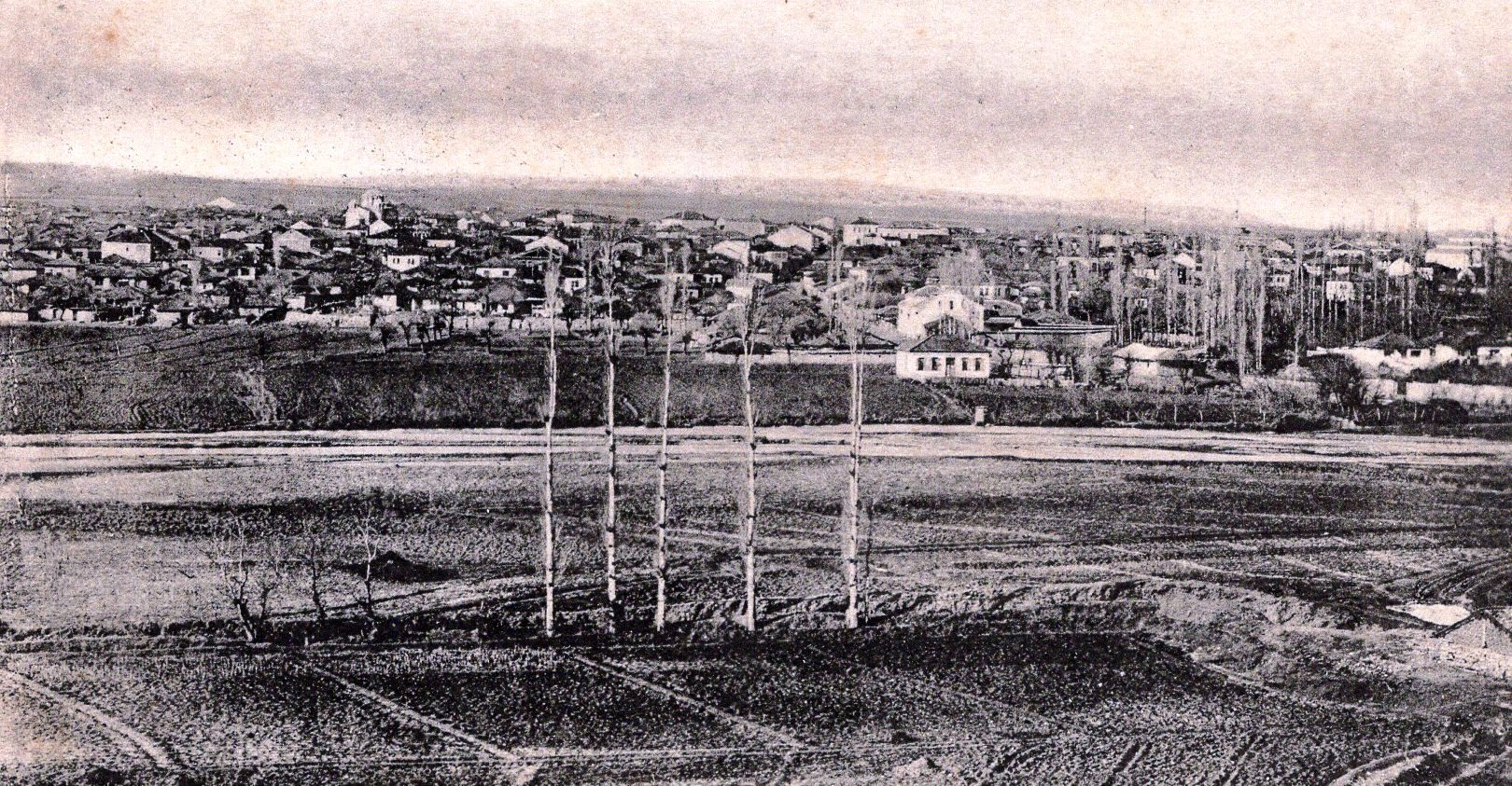 Postcard of Kumanovo, from 1913 This media file is produced by Wikipedian in Residence in Category:Wikipedian in Residence at DARM in 2016.